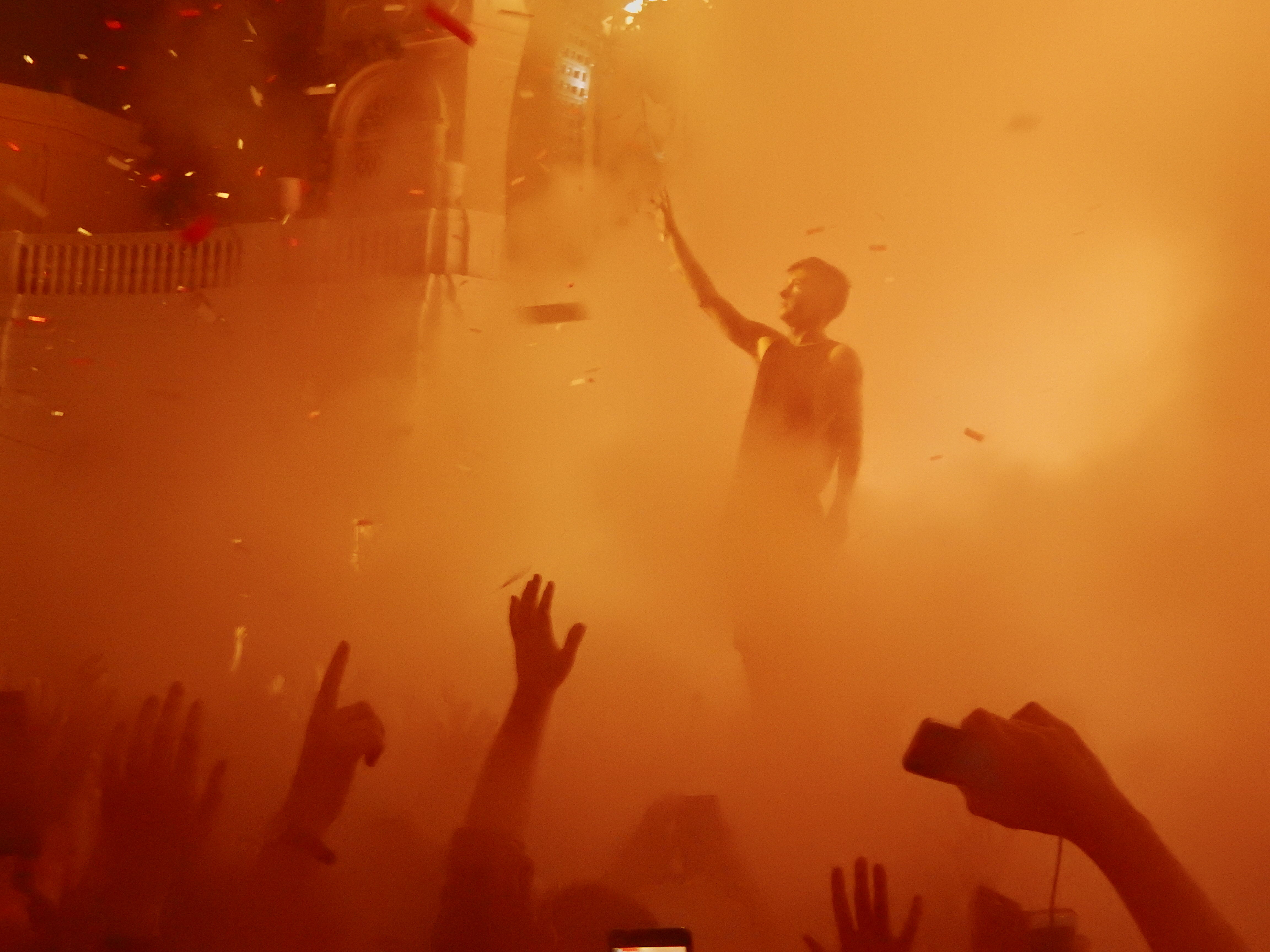 Twenty One Pilots, Brixton Academy, London